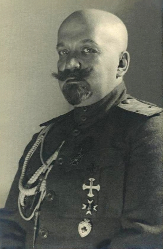 Alexey Alexandrovich von Lampe (1885 - 1967), Major General of the General Staff (1921)